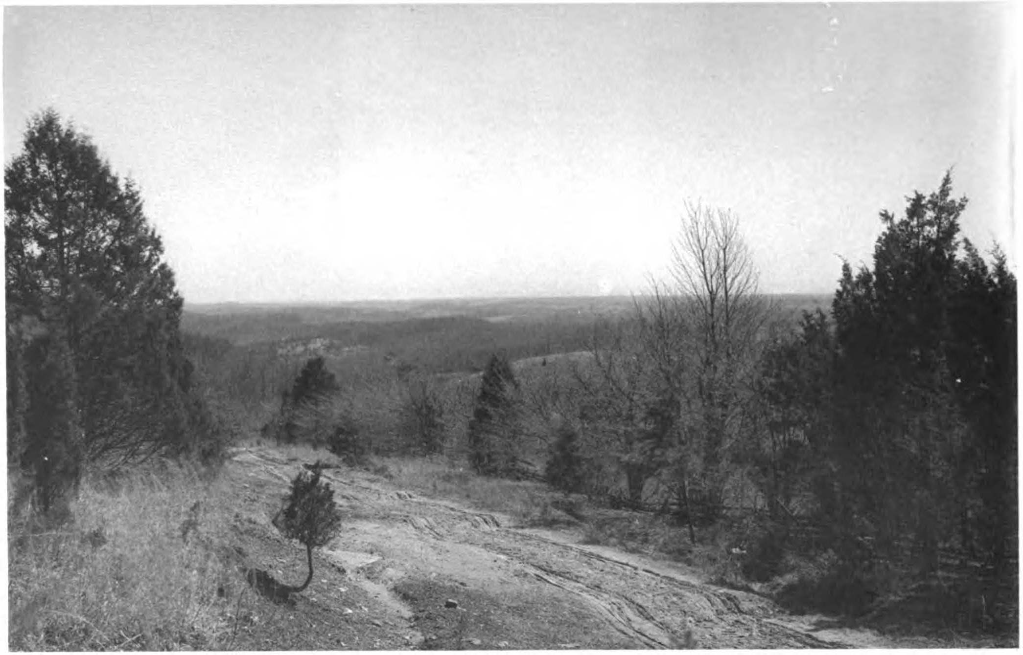 Plate XXXVII of 1898 publication called Maryland Geological Survey Volume Two. Caption:Piedmont Plateau, looking east from Rocky Ridge